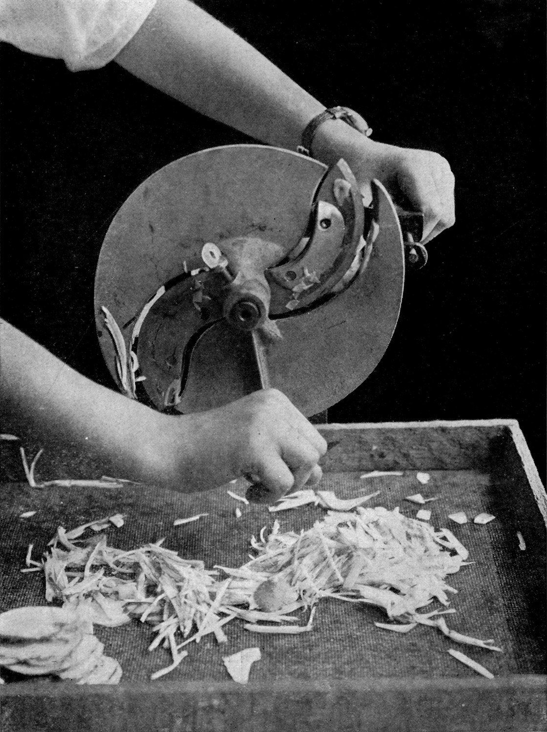 THE SLICING MACHINE AT WORK. Showing how it cuts potatoes into thin slices and, by putting these slices through again, cuts them into narrow strips, or "shoestrings".